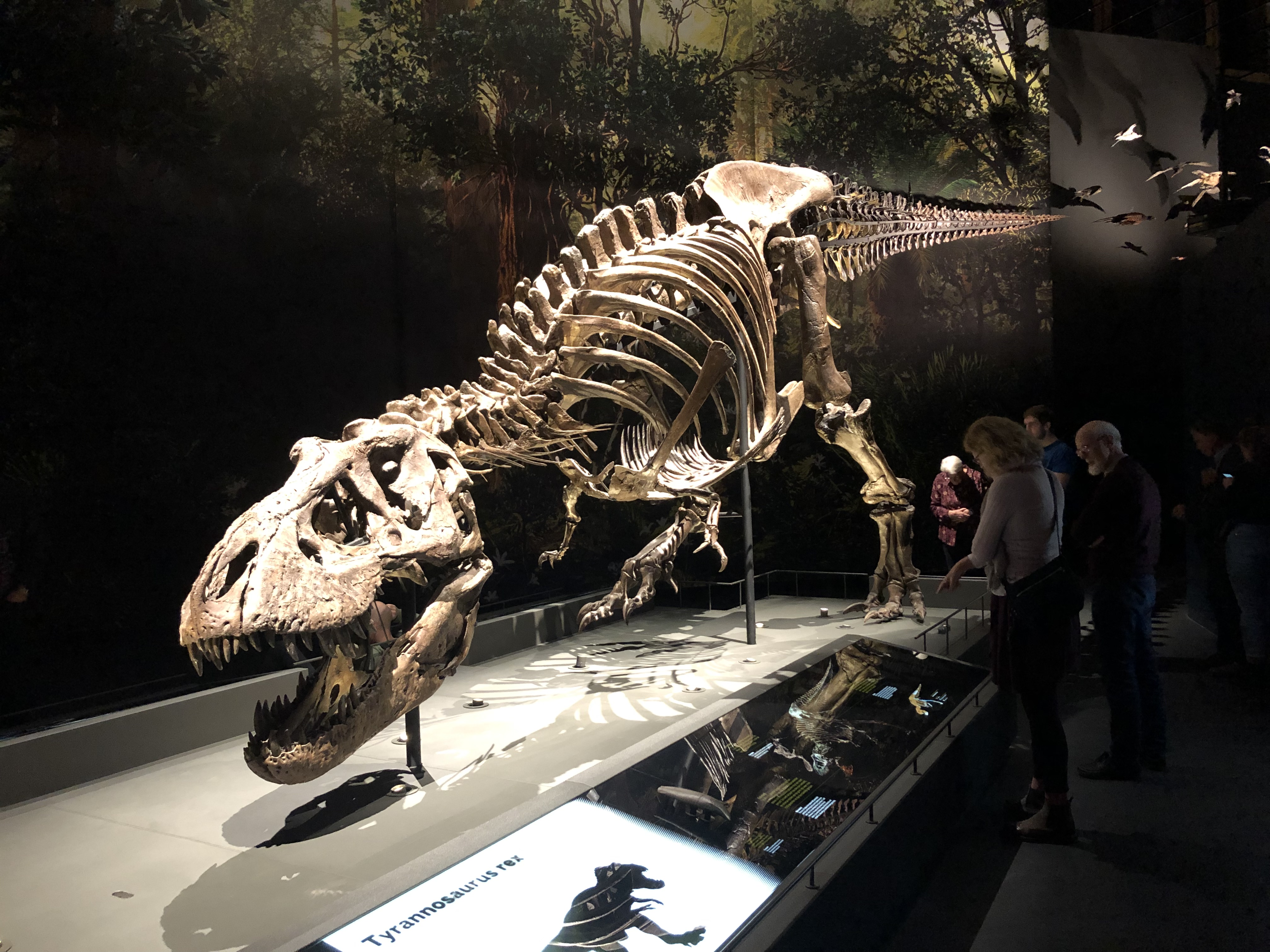 Dinosaur skeleton 'Trix' in Naturalis (Leiden)